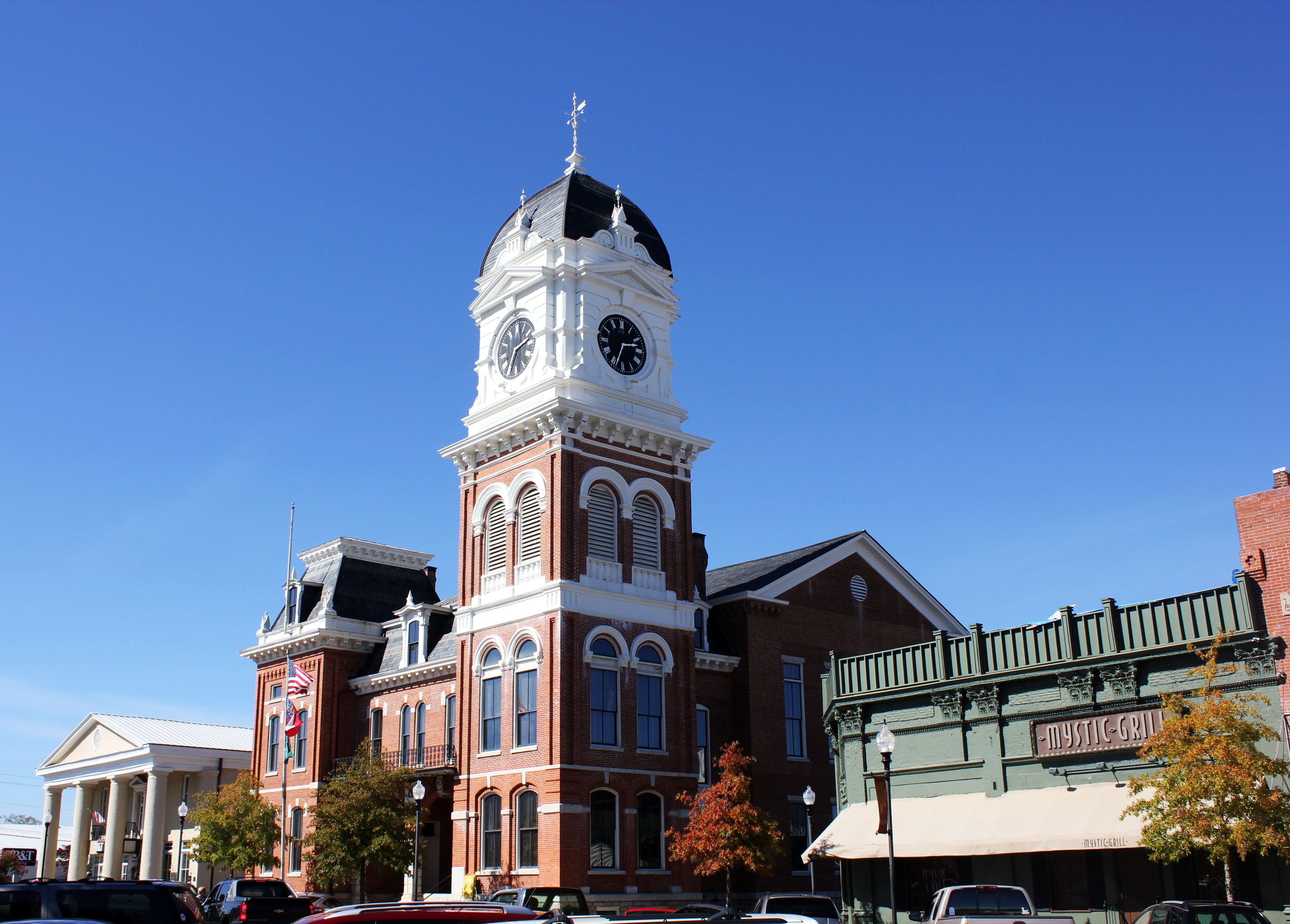 Facing the north-western side of Covington Square, including (L-R) the BB&T Bankhouse, the NRHP-listed Newton County Courthouse, and the Mystic Grill set from "The Vampire Diaries".